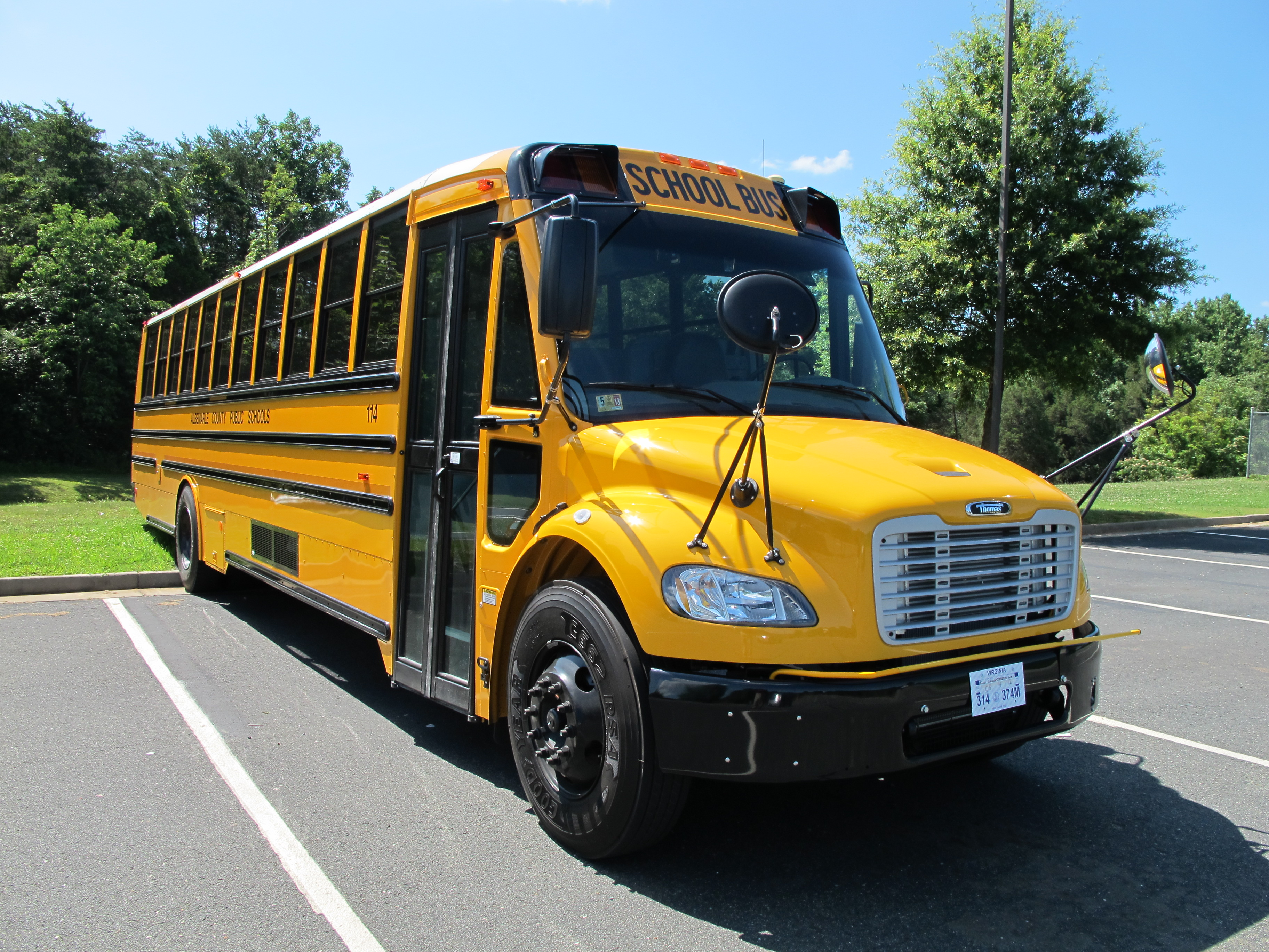 A front 3/4 view of a school bus in Abemarle County, Virginia. The bus is a 2013 Thomas Saf-T-Liner C2 (77-passenger capacity).